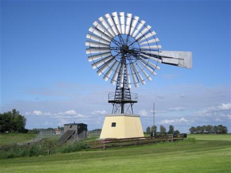 Windmotor in Jousterp